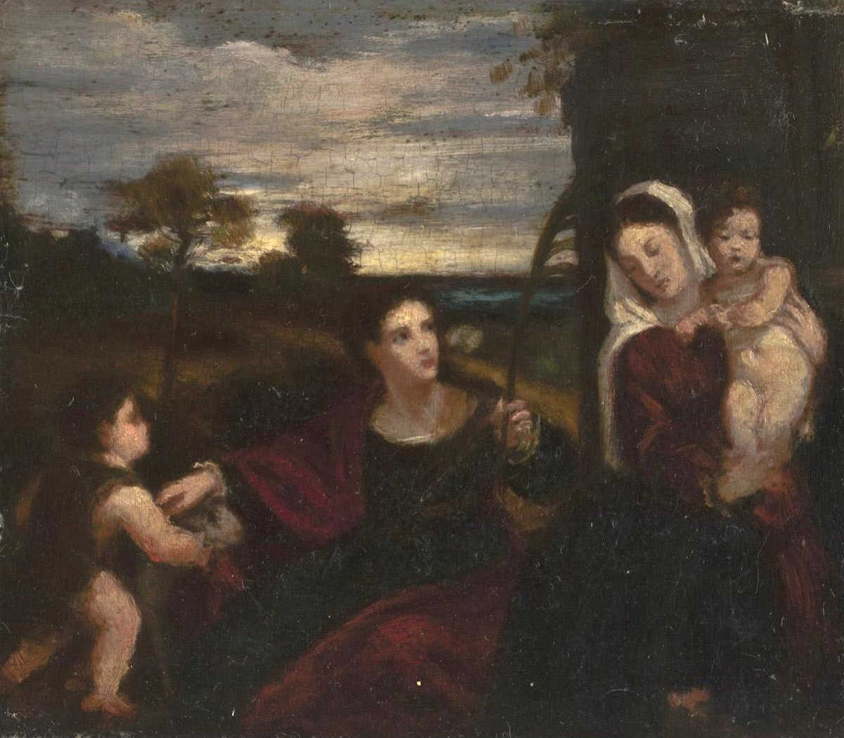 Helen Mary Knowlton ,The Virgin, Jesus, Saint Agnes and St. John, after Titian , Italian, 1477–1576. Worcester Art Museum